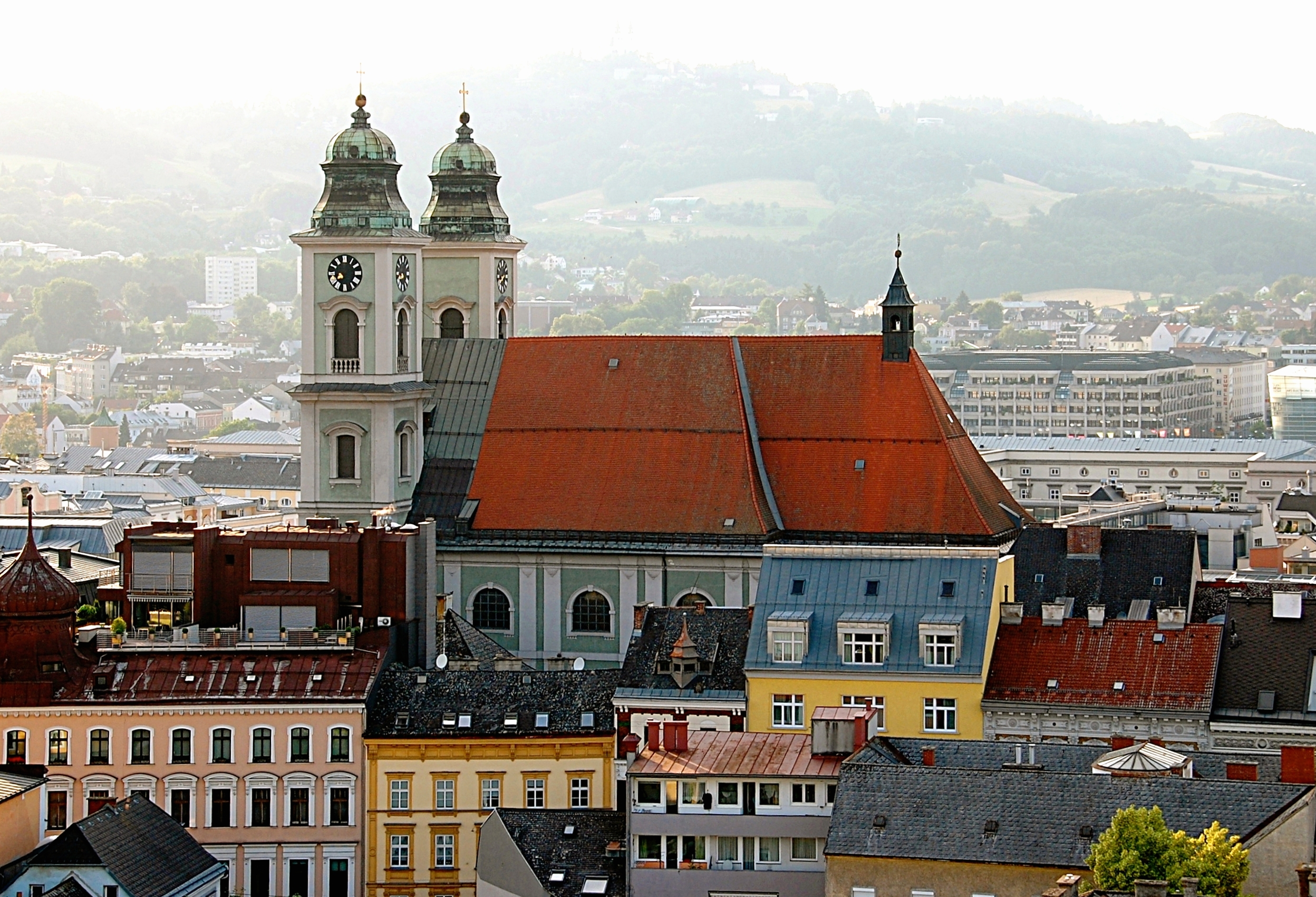 Old Cathedral Alter Dom in Linz, Austria (seen from the roof of the shopping mall Passage)